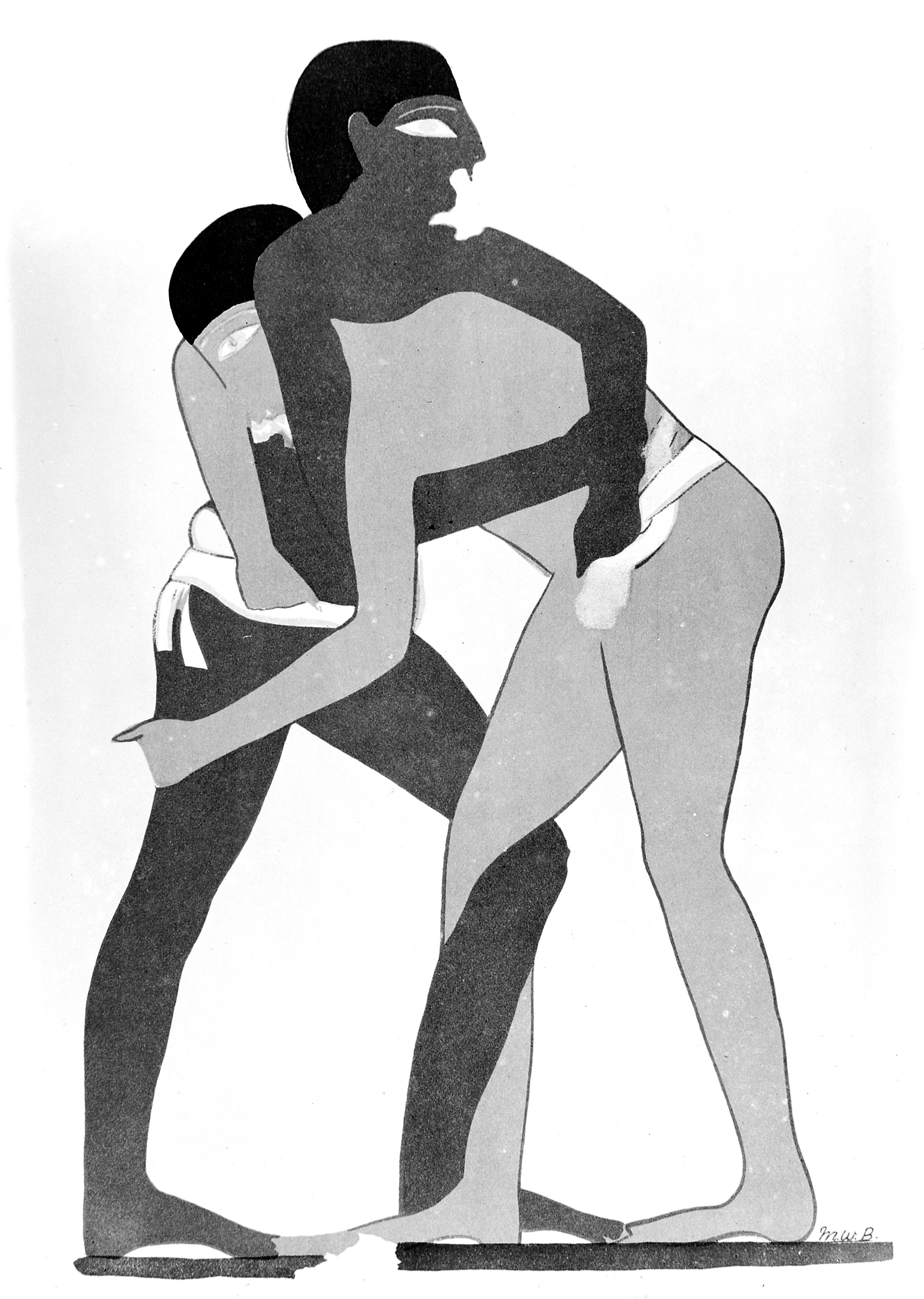 East wall showing group of wrestlers from tomb 15 at Beni Hasan. Wellcome Images Keywords: egyptology